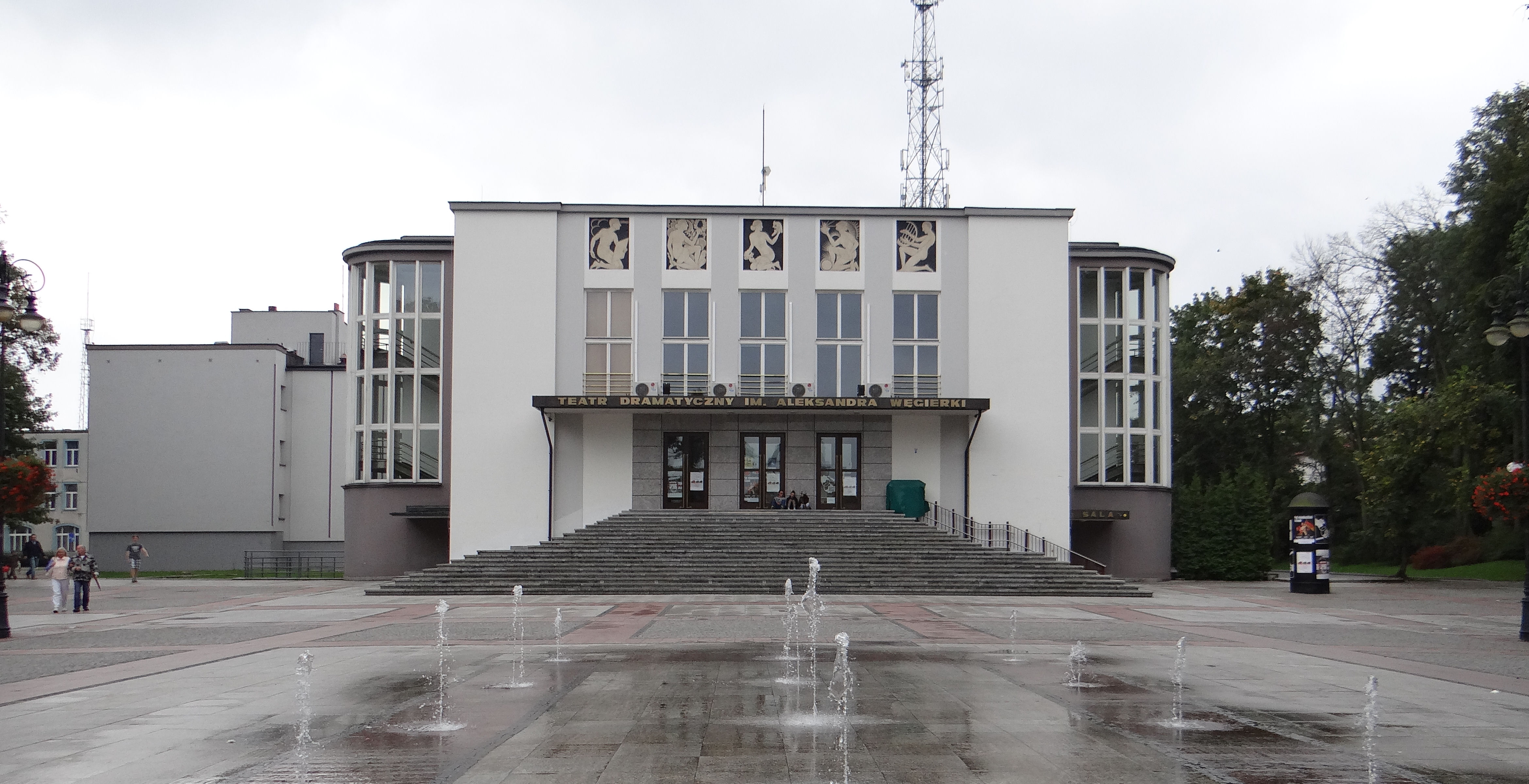 Wegierko Drama Theatre (Białystok)